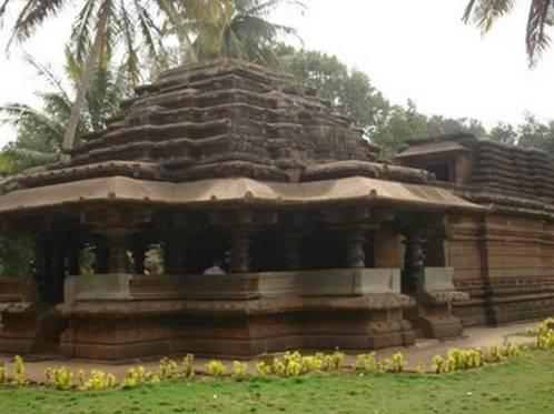 Kamal basadi Jain temple Author and Source : Manjunath Doddamani, gajendragad, Karnataka (North), India